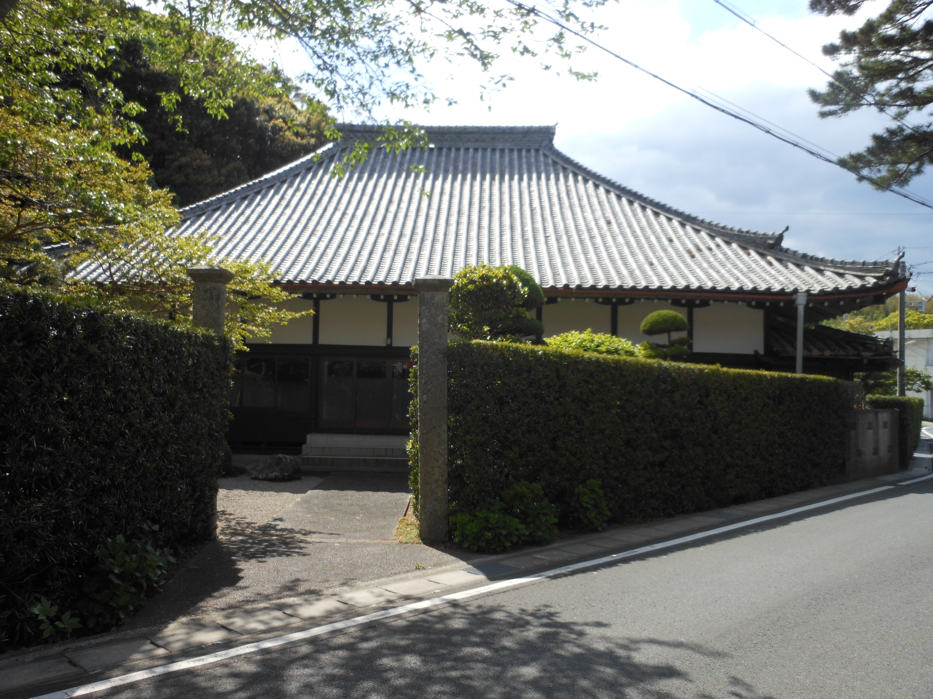 This is the Cho'on-ji temple in shimacho-Goza, Shima, Mie, Japan.